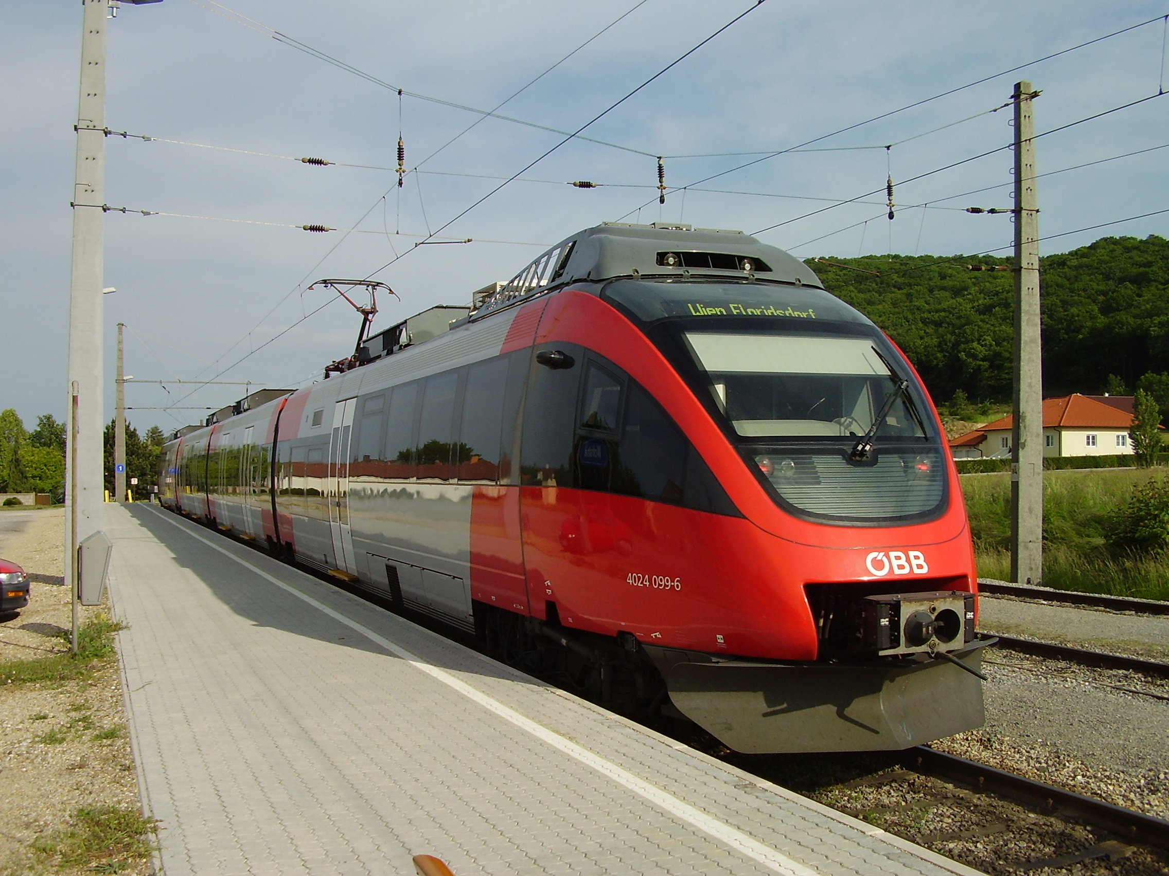 Sub-urban train in Wolfsthal end station